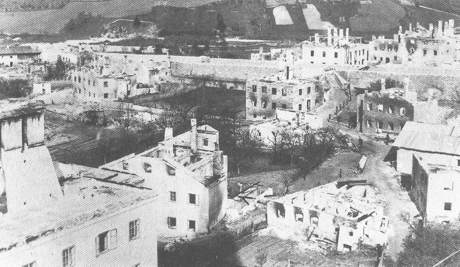 Matrei in Osttirol after the great fire 1897